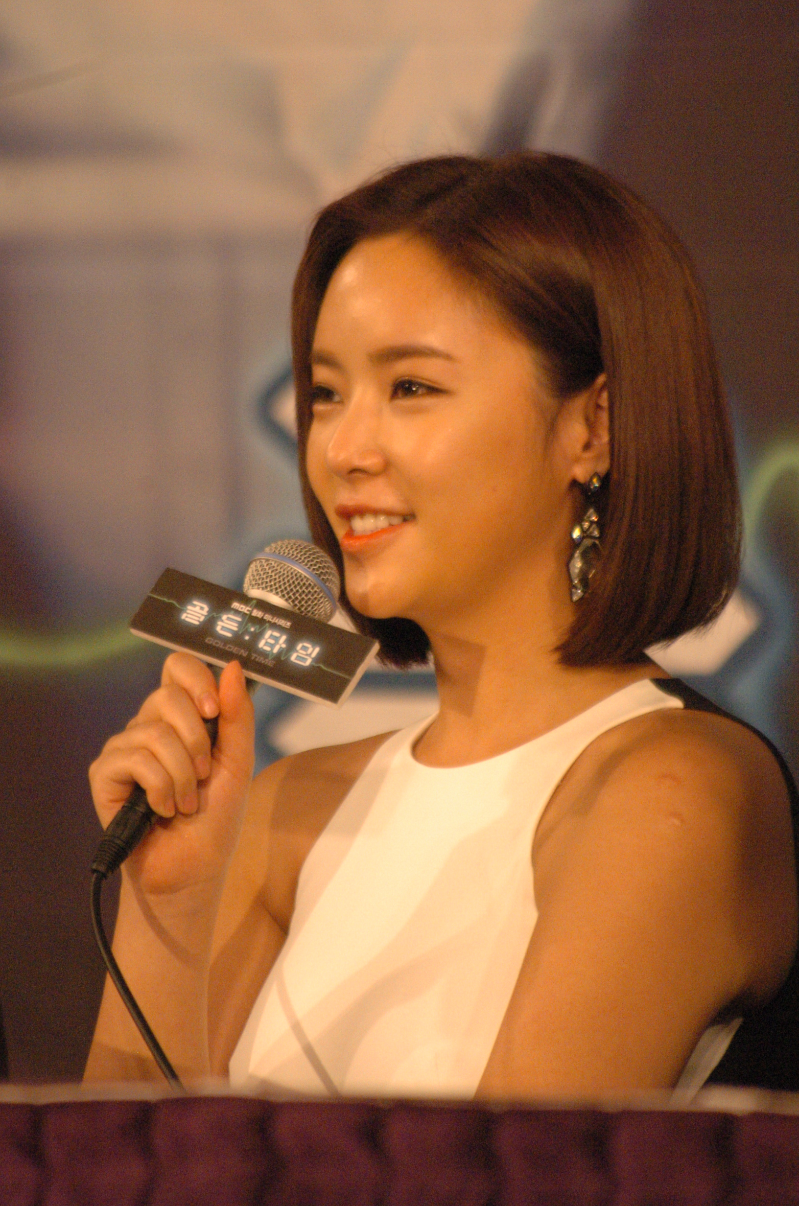 골든타임 269